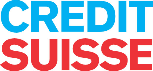 The old logo of Credit Suisse.